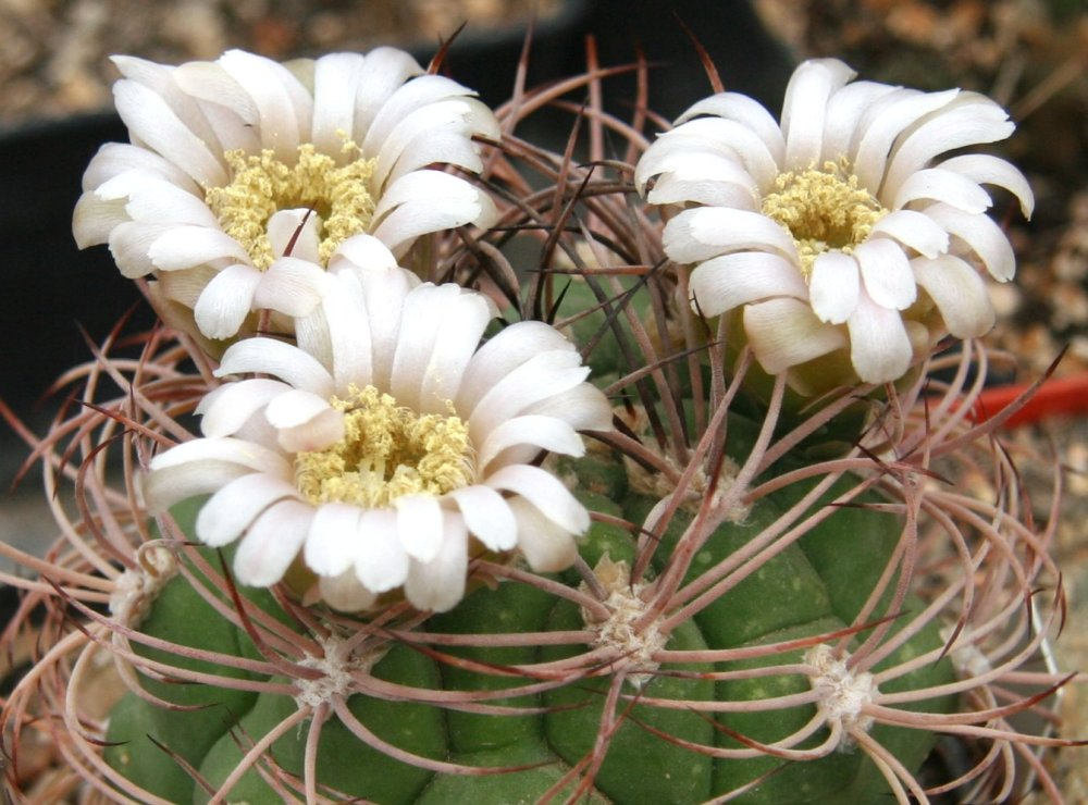 Gymnocalycium saglionis in Blüte